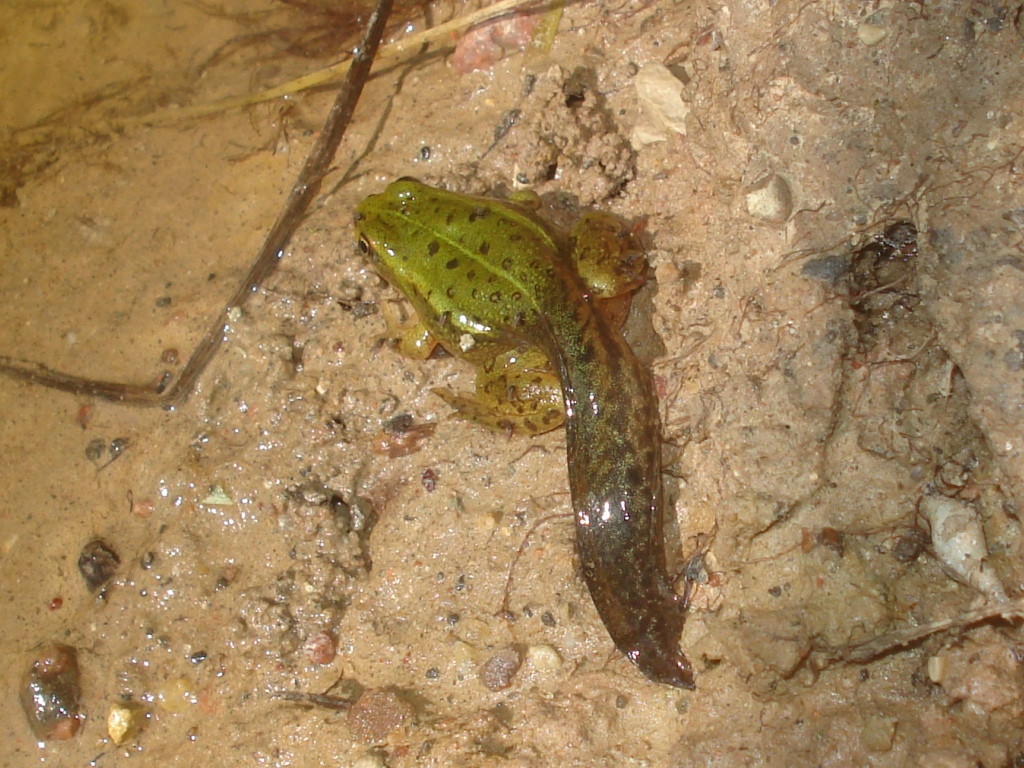 The Pool Frog (Pelophylax lessonae, orPelophylax lessonae)